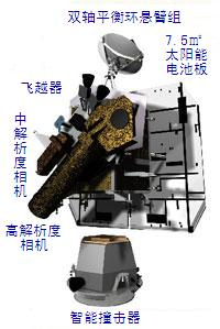 Overview of Deep Impact spacecraft.